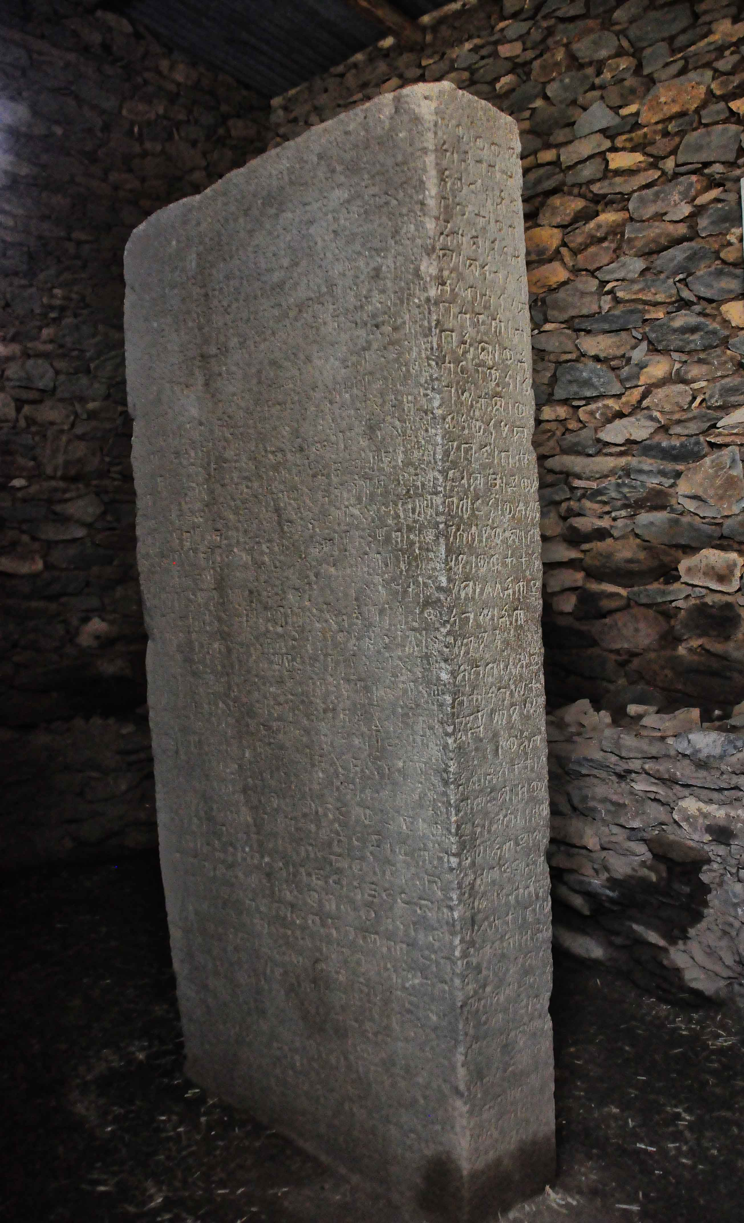 Found in a field by a farmer the Stone is written in Ancient Greek, Sabaen and Ge'ez, the holy language of Ethiopia (similar to the Rosetta Stone). It records trilingually the conversion of King Ezana to Christianity and his subjugation of other kingdoms. It sits in a simple stone hut surrounded by fields with a basic lock holding shut the tin door.